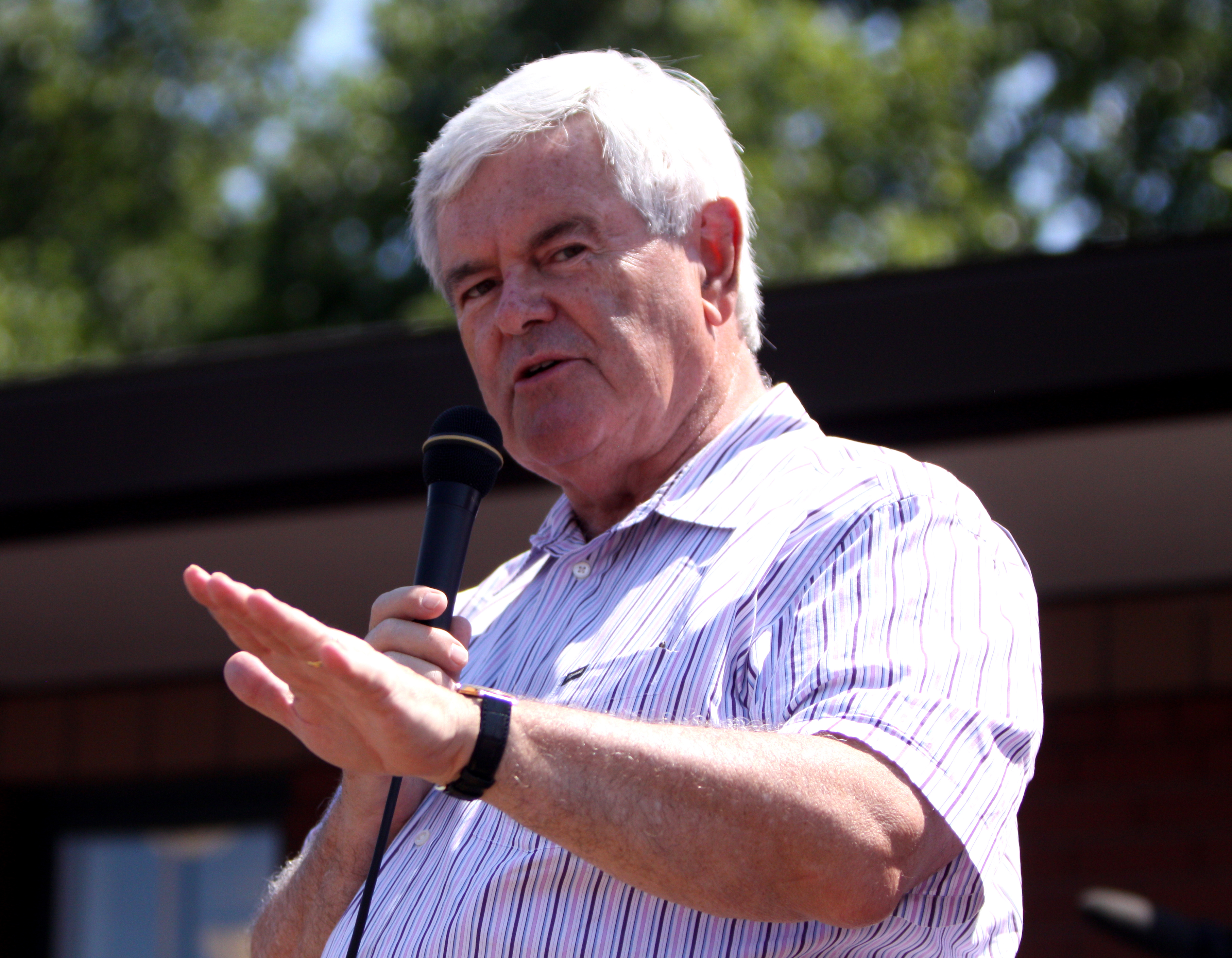 Newt Gingrich at the Iowa State Fairgrounds in Des Moines, Iowa.